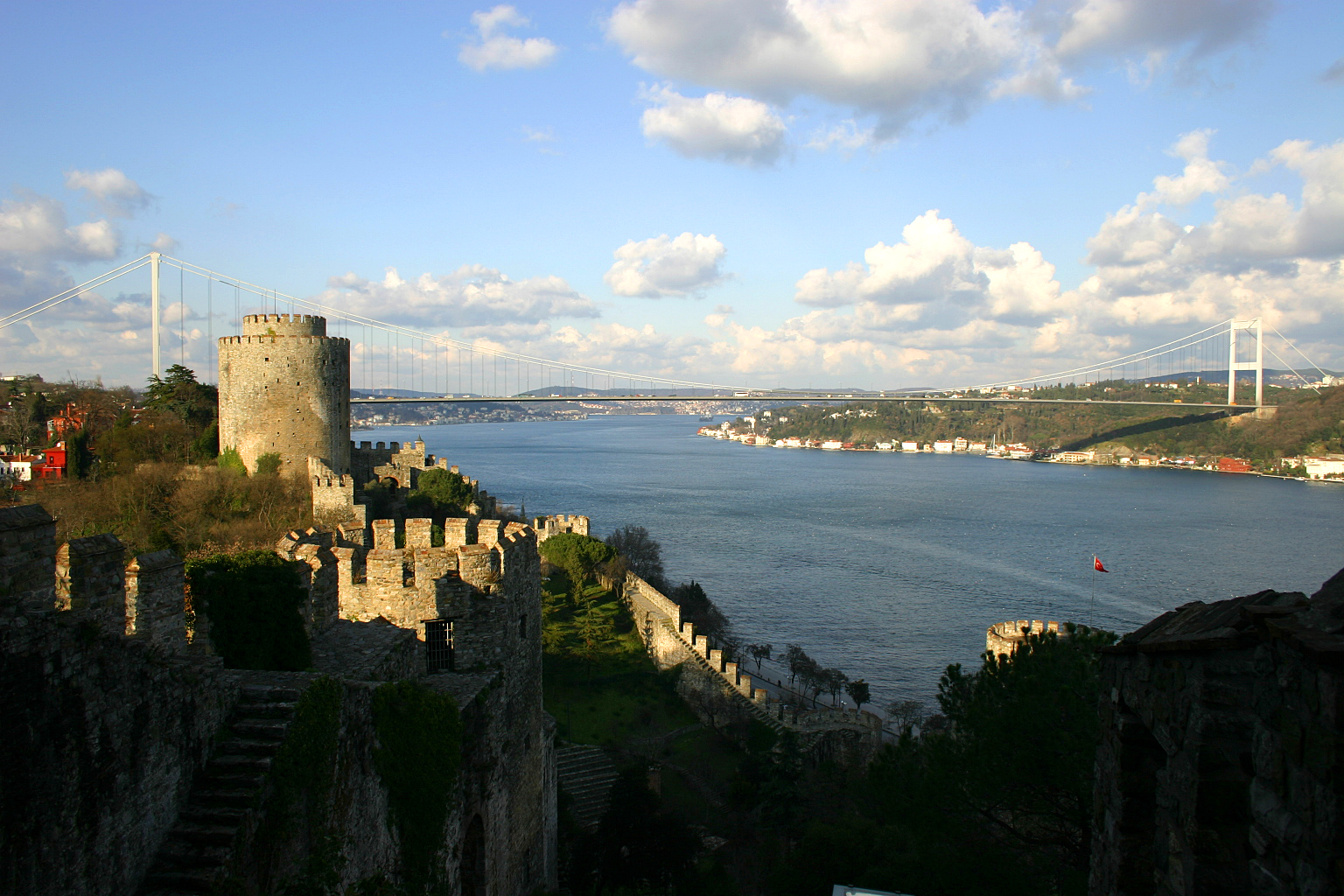 General view from Rumeli Hisari